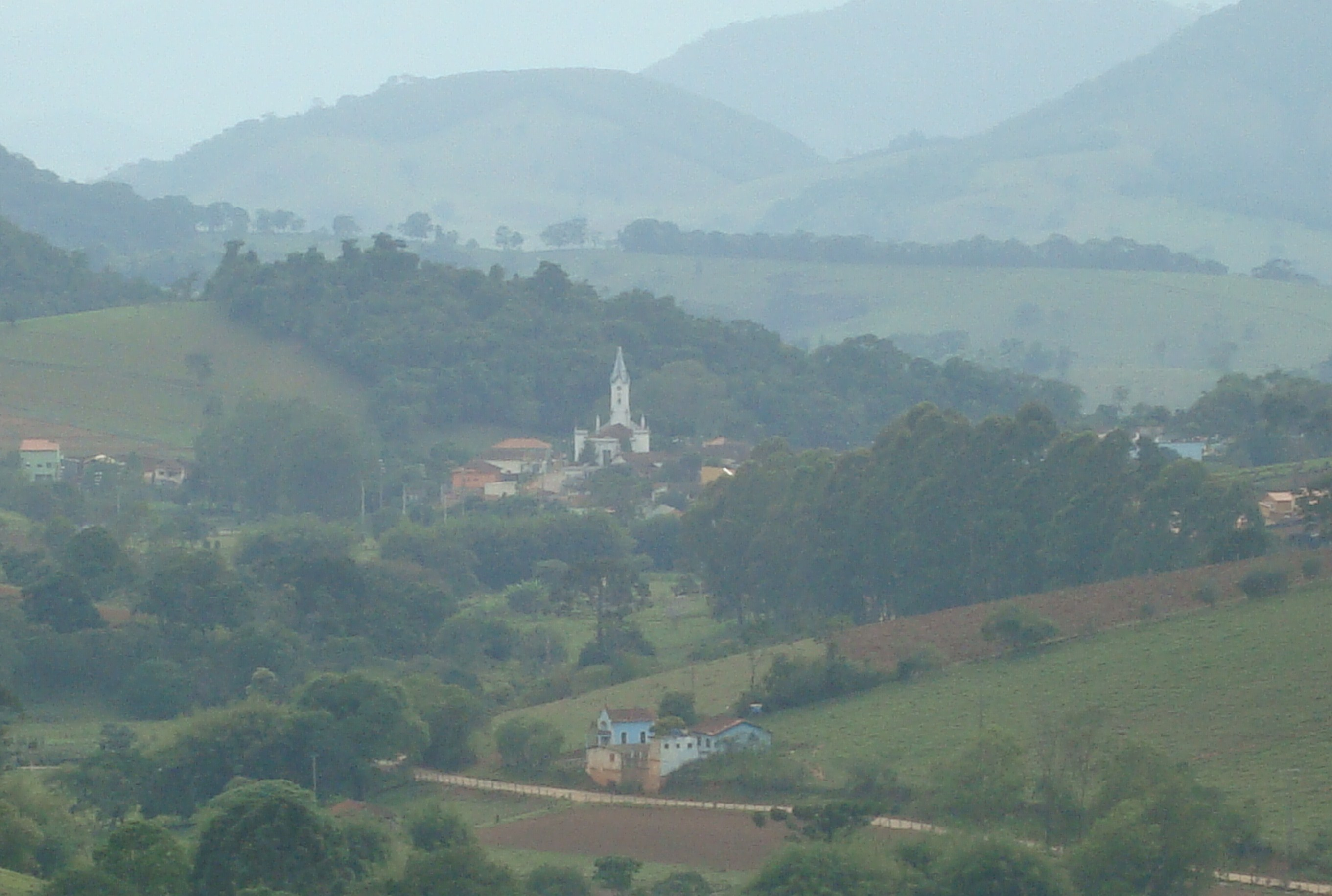 Downtown Consolação in Minas Gerais, Brazil